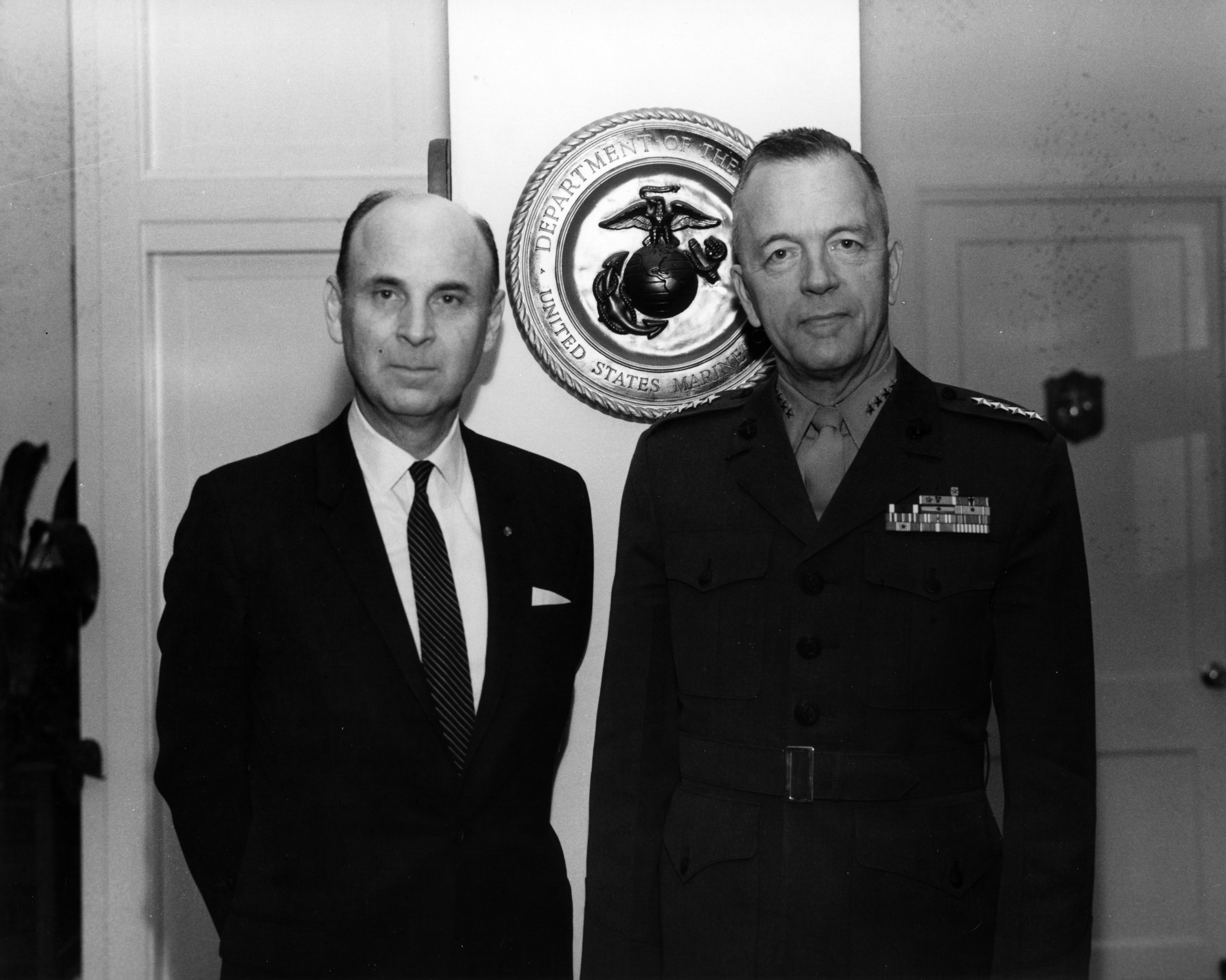 Brigadier general James D. Hittle, USMC (retired), now Assistant Secretary of the Navy for Manpower and Reserve Affairs, visited the Commandant of the Marine Corps, Leonard F. Chapman Jr. in his office in Washington, D.C.